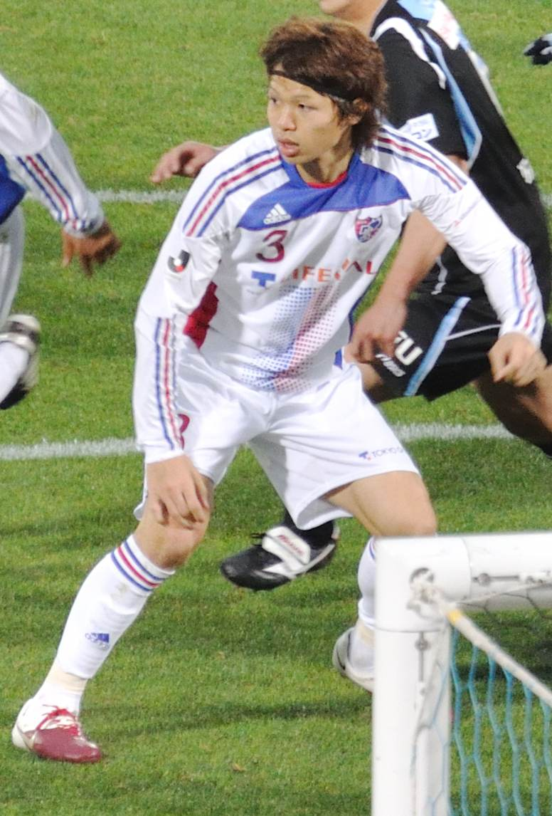 Masato Morishige cropped from Kawasaki Frontale vs FC Tokyo